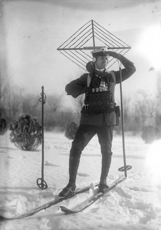 A radio enthusiast on snow shoes equipped with a radio set and a coil aerial, in order not to miss the ski route. (dispatch text 1931). [Dispatch text from 17 January 1924: Radio in the service of the rescue of mountain tourists. The medic on skis is dispatched by a lookout on a patrol course after an accident, equipped with a radio transmitter so he can call for further help from the master station.